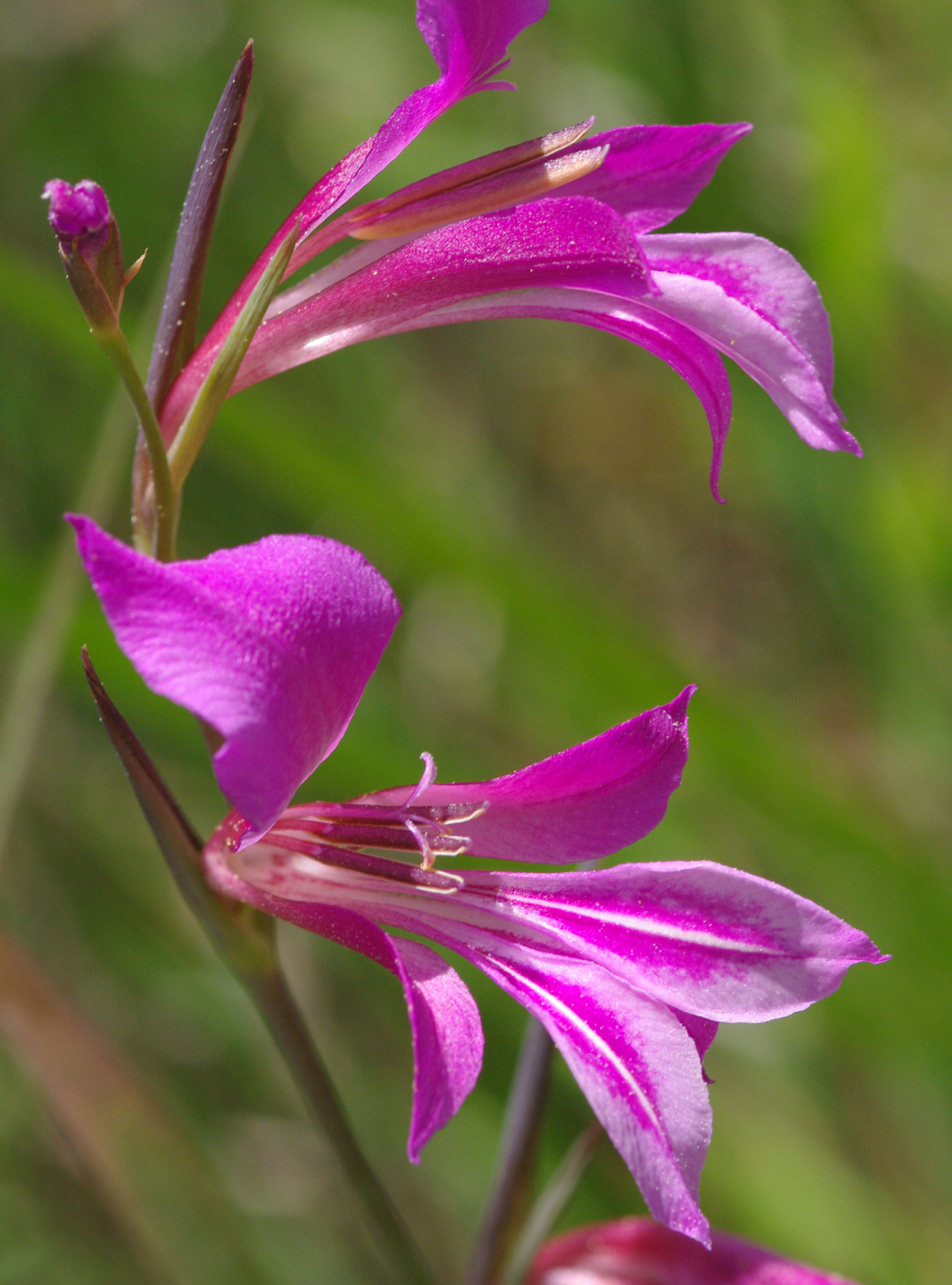 Flowers of gladiolus (probably Gladiolus anatolicus). Çukurova University Campus, Adana - Turkey.